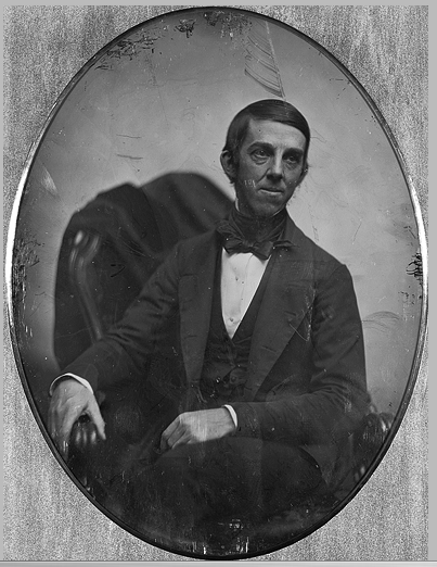 Title: Oliver Wendell Holmes (1809-1894) Item Identifier: P1973.54 (Object Number) Work Type: photograph Creator: Hawes, Josiah Johnson (1808 - 1901), American Production: United States Date: c. 1850 - c. 1856 Description: An 1895 newspaper taped to the verso of the plate may indicate the date of a previous rehousing or rebinding. Dimensions: actual: 24.1 x 19.1 cm (9 1/2 x 7 1/2 in.) Topics: Photographs Nationality/Culture: American Materials/Techniques: Whole plate daguerreotype